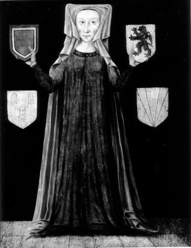 Portrait of Derbhfhorghaill inghean Ailein (Dervorguilla Balliol), Princess of Galloway